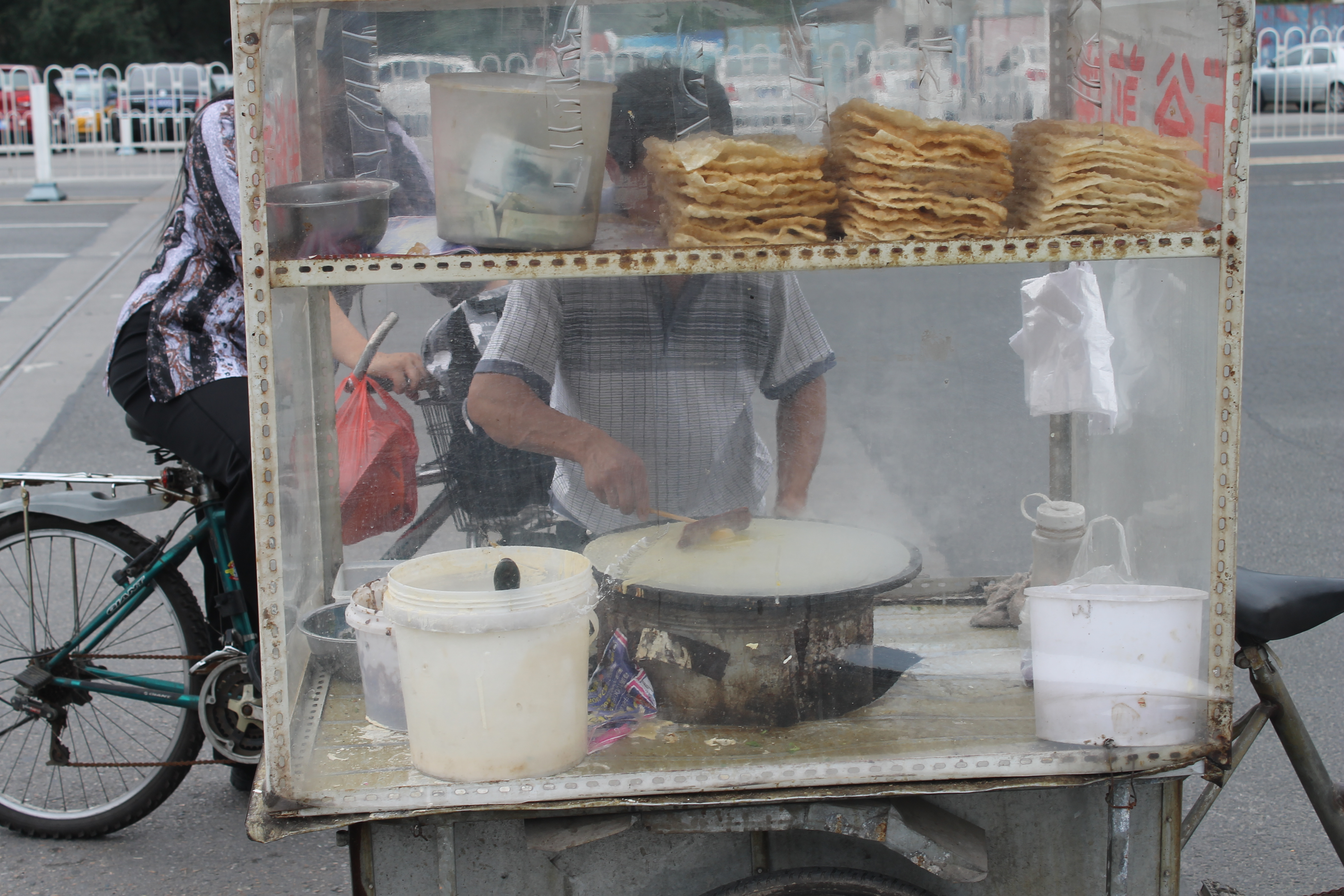 Return to the glorious homeland... Steve and I visit family and friends in Beijing and Shanghai, and experience the weirder parts of culture shock, like missing mundane things like Domino's Pizza. Also, ghost houses, the UChicago Center, malaxiangguo, relatives, and a lot of long subway rides. I kind of love this country anyway!